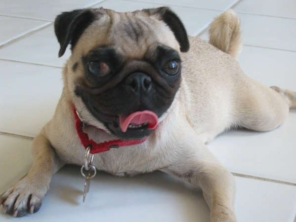 Fawn pug